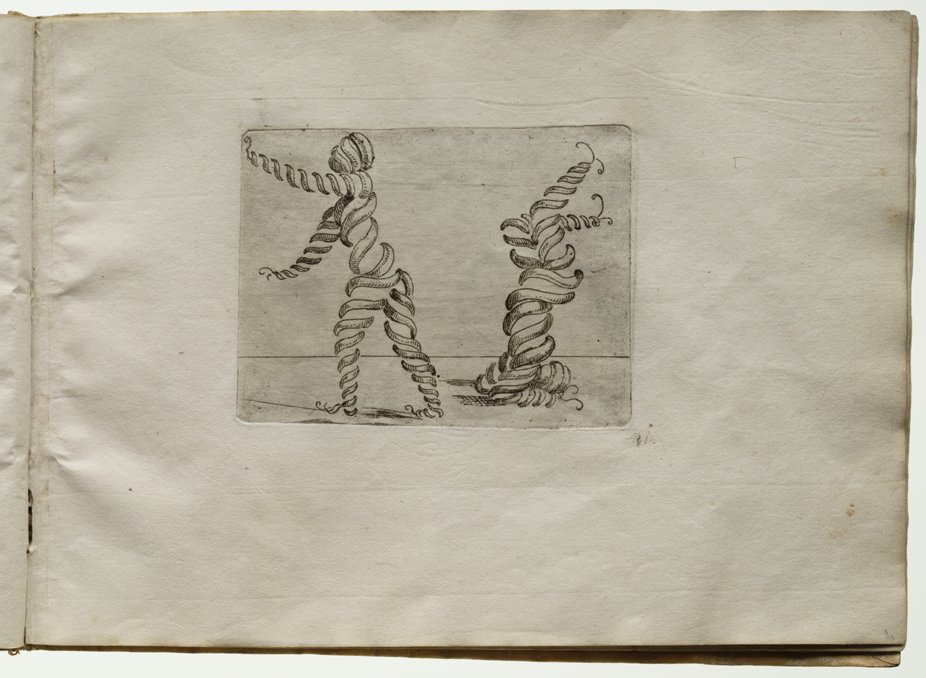 Engrave from Bizzarie di Varie Figure by Giovanni Battista Bracelli